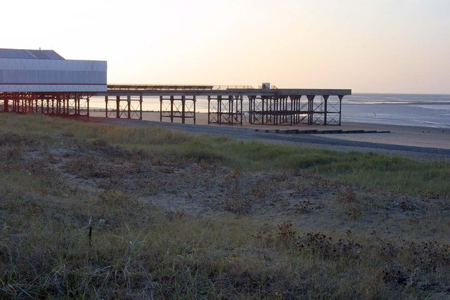 Fleetwood Pier